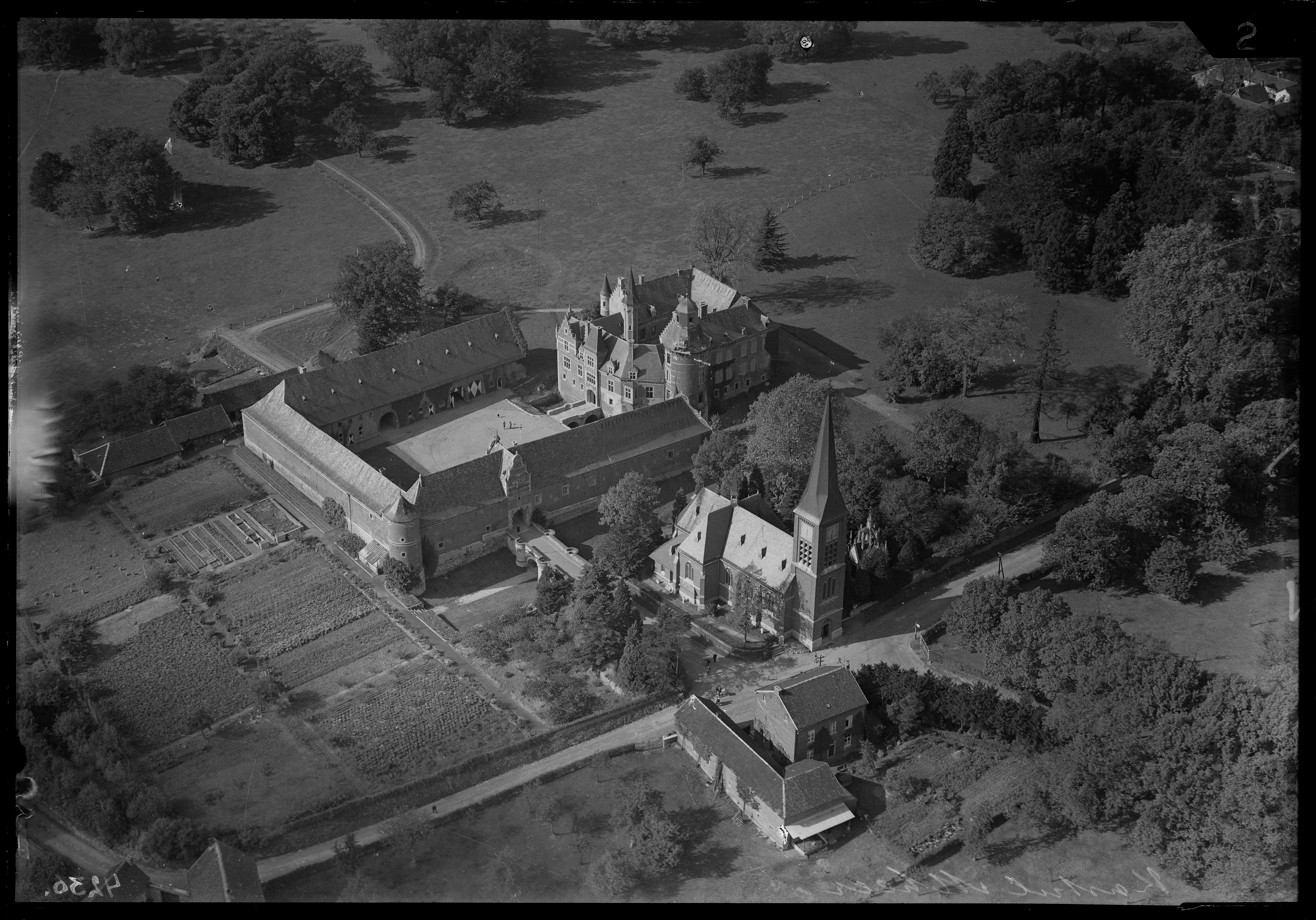 Aerial photograph of Castle Mheer, Margraten-Eijsden, Limburg, The Netherlands